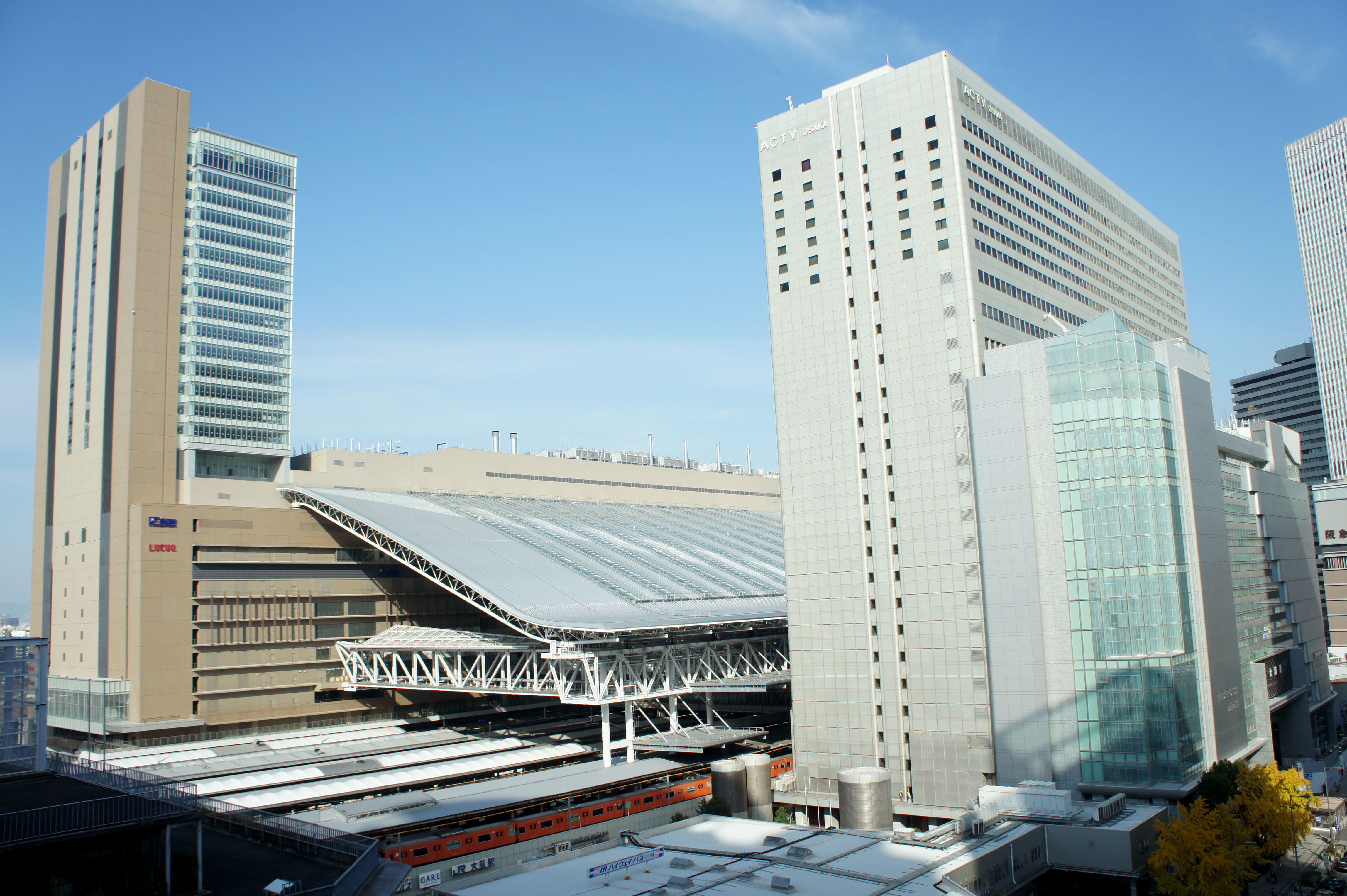 OSAKA STATION CITY,Umeda Kita-ku Osaka-City OSAKA JAPAN.